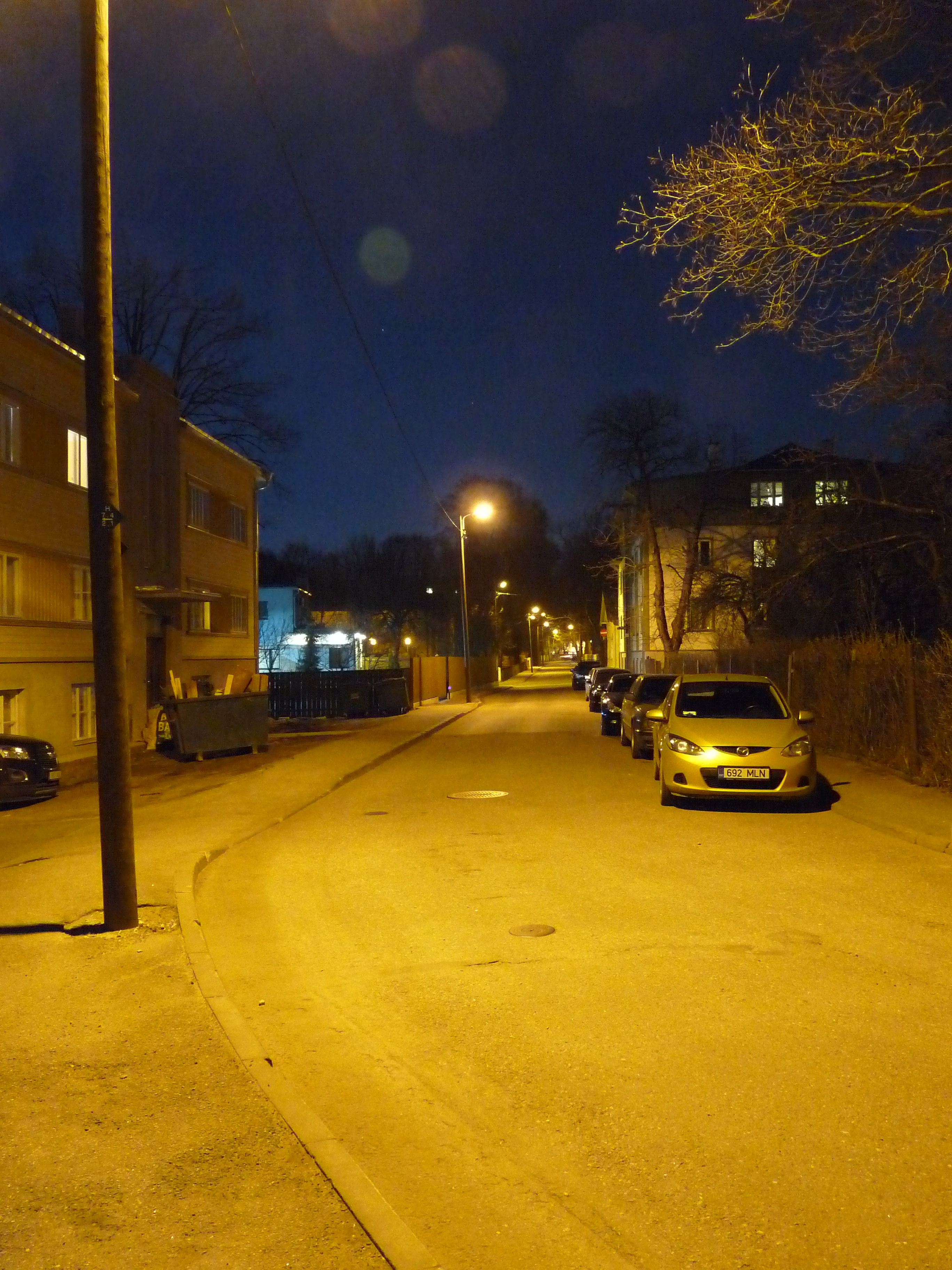 Magdaleena street in Tallinn, Estonia